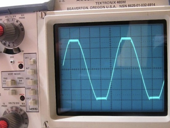 Oscilloscope readout of an amplifier output. This shows a 1 KHz sine wave clipping into 5 ohms. 10V/division. The oscilloscope shown is a Tektronix 465M.